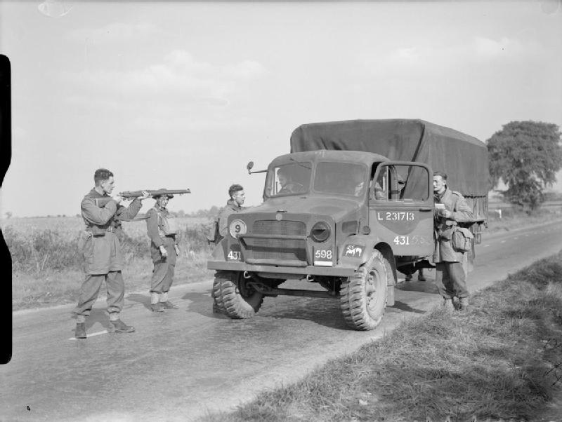 The British Army in the United Kingdom 1939-45 Parachute troops hold up an 'enemy' Bedford OYD lorry during Exercise 'Bumper', 2 October 1941.